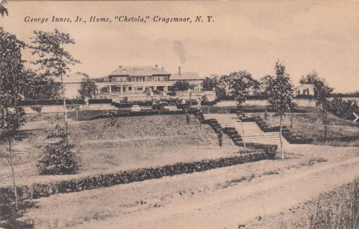 Chetolah, Wawarsing, New York